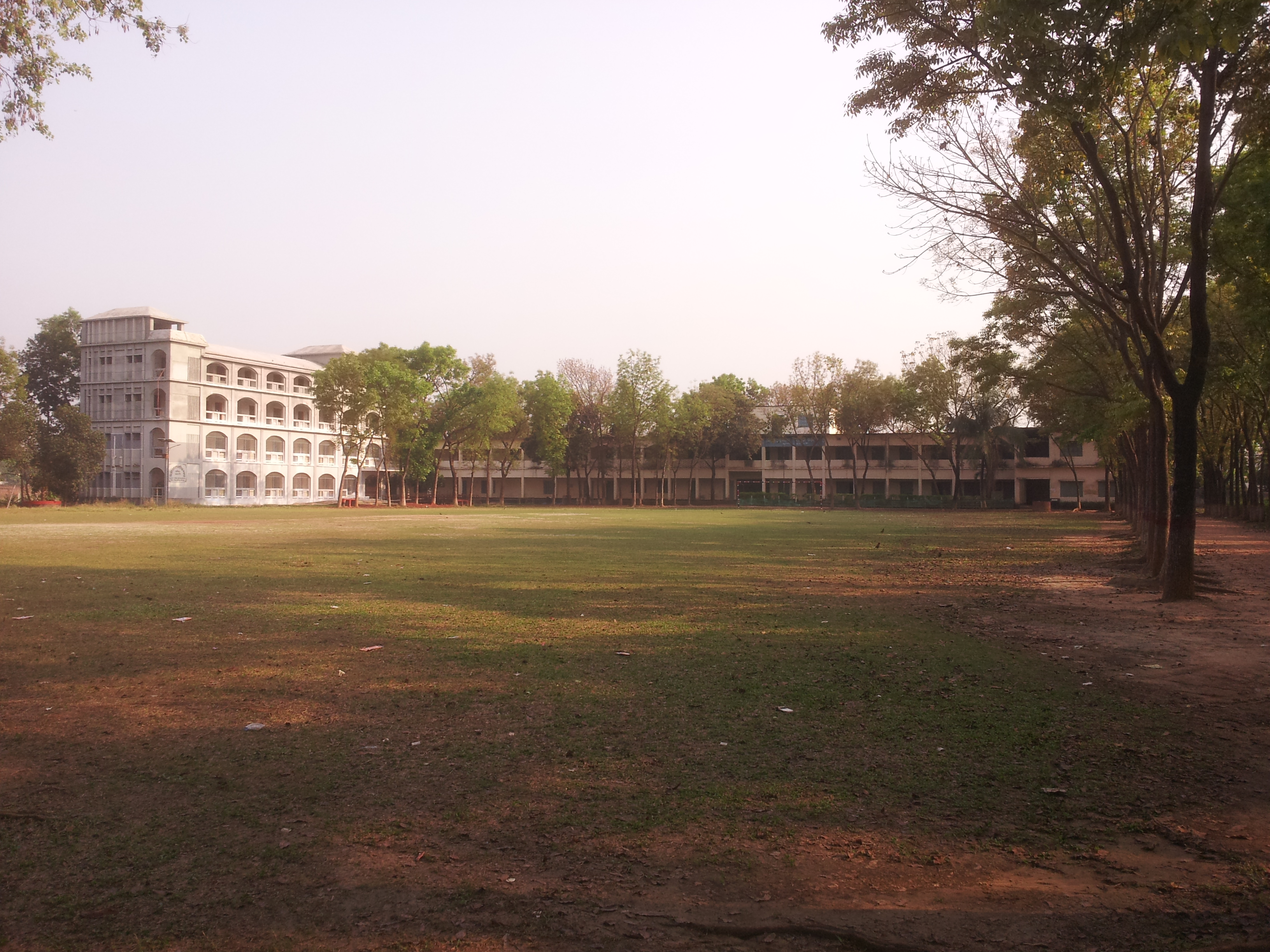 Mirza Golam Hafiz College, Savar.